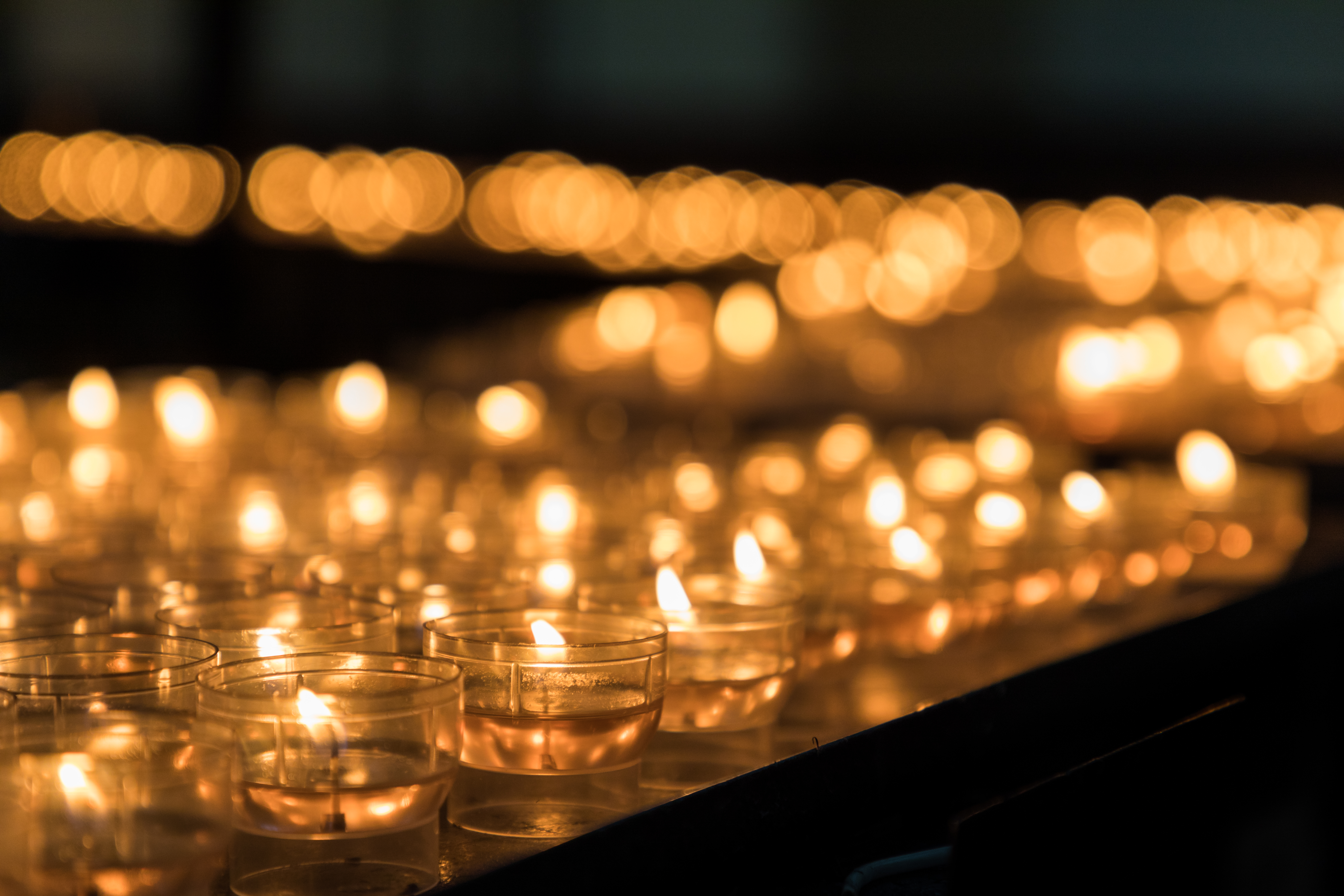 St. Salvator's Cathedral, Brügge, Belgium